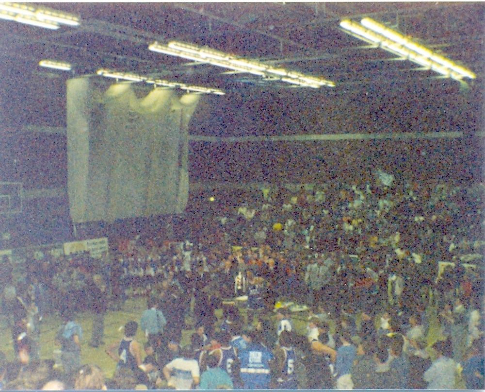 Portsmouth FC Basketball Club captain Alan Cunningham lifts the National League Division 1 championship trophy after their final home league match of the 1986-87 season against Manchester United at the Mountbatten Centre in Portsmouth on February 20th 1987